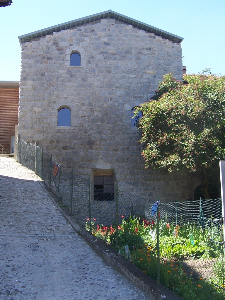 Old Federici's tower. Vezza d'Oglio, Val Camonica, Italy